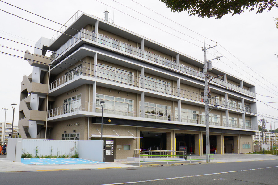 Tokyo Fire Department Machida Fire Department(2380-3 Honmachida, Machida-shi, Tokyo, Japan)